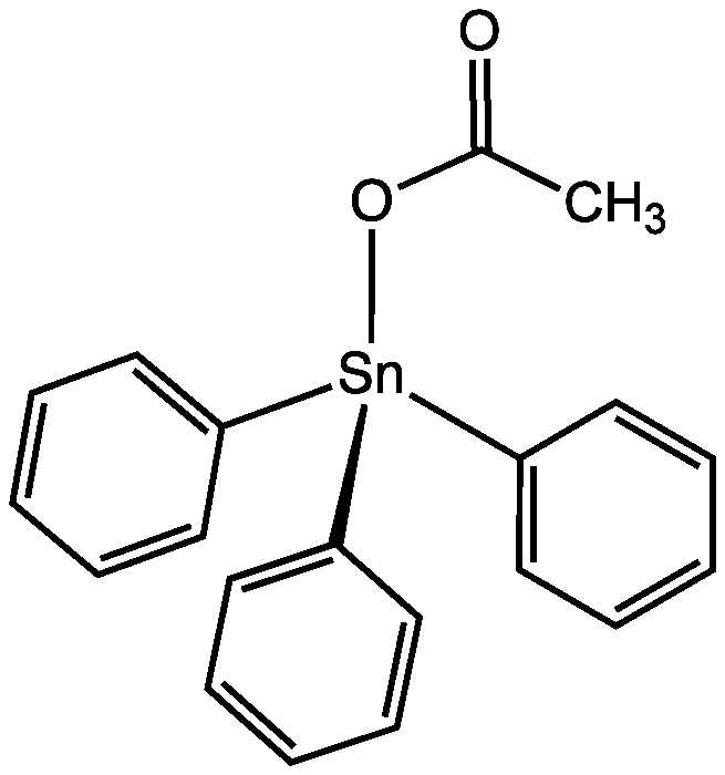 structure of triphenyltin acetate